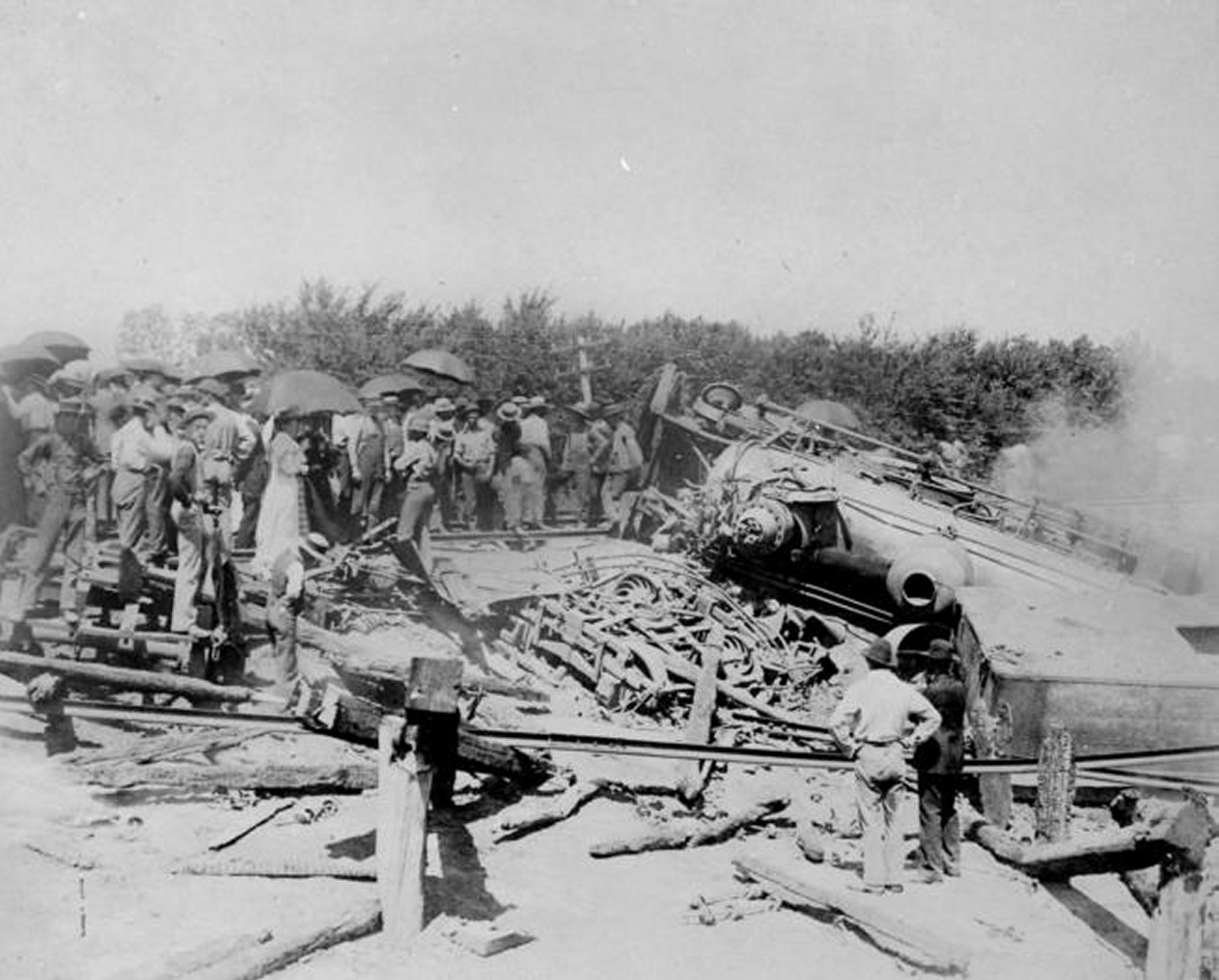 This is an image of the aftermath of the en:1894 Rock Island railroad wreck.